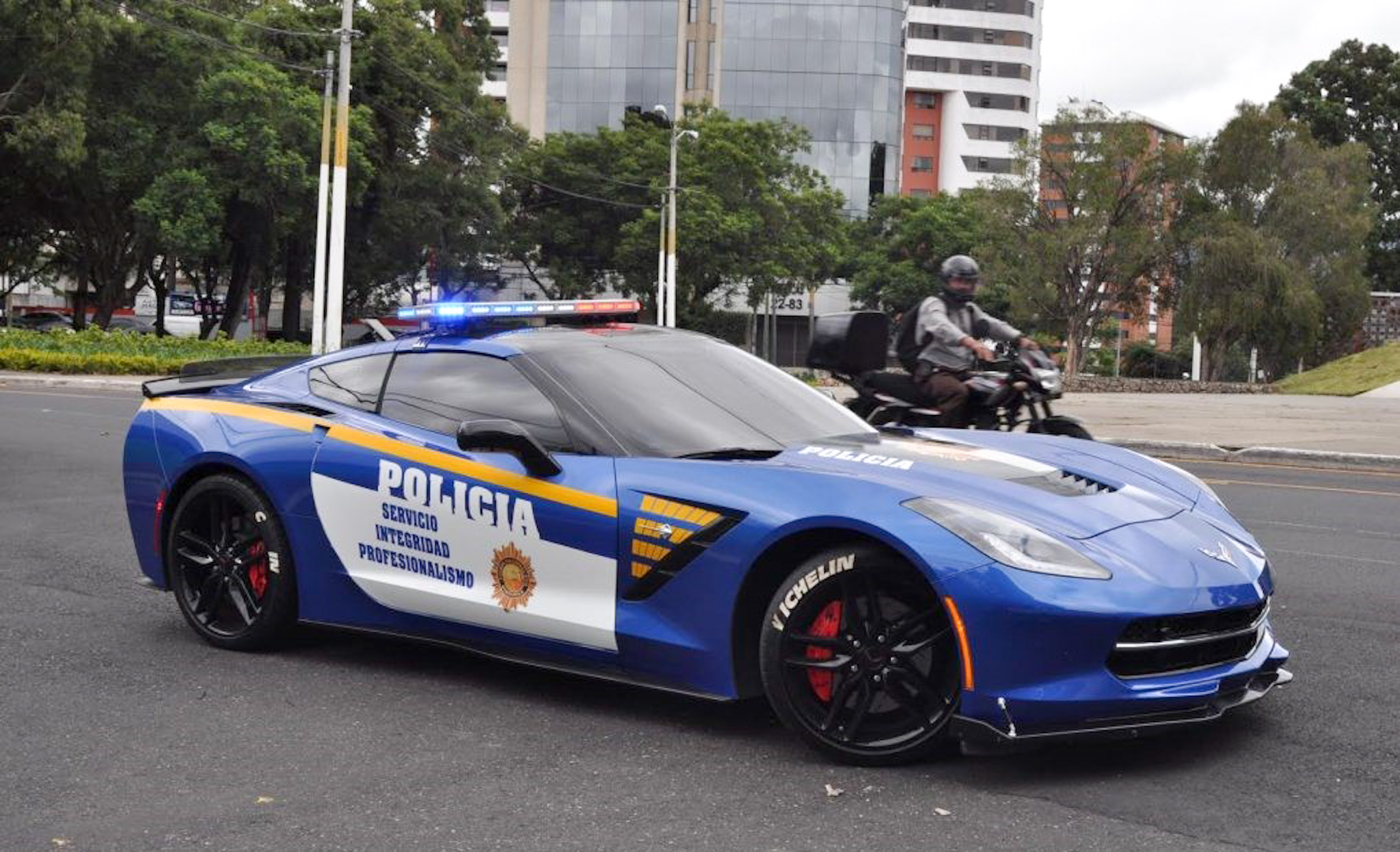 Corvette C7 PNC Guatemala City